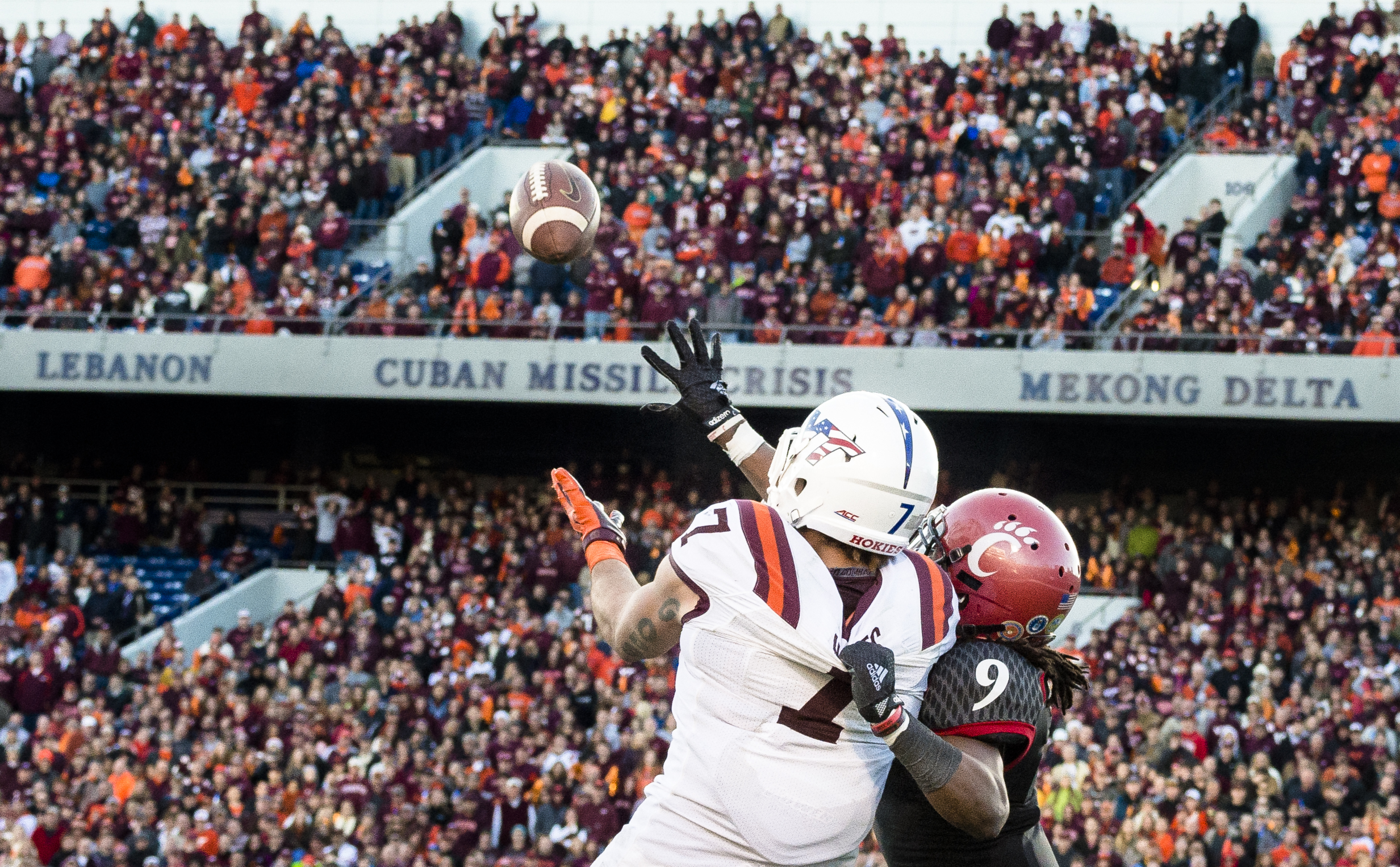 Bucky Hodges (#7 in white) is defended by a player for the Cincinnati Bearcats during the 2014 Military Bowl held at Navy-Marine Corps Memorial Stadium, in Annapolis, Md., Dec. 27, 2014. Virginia Tech defeated Cincinnati 33-17. DoD photo by Army Staff Sgt. Sean K. Harp/Released